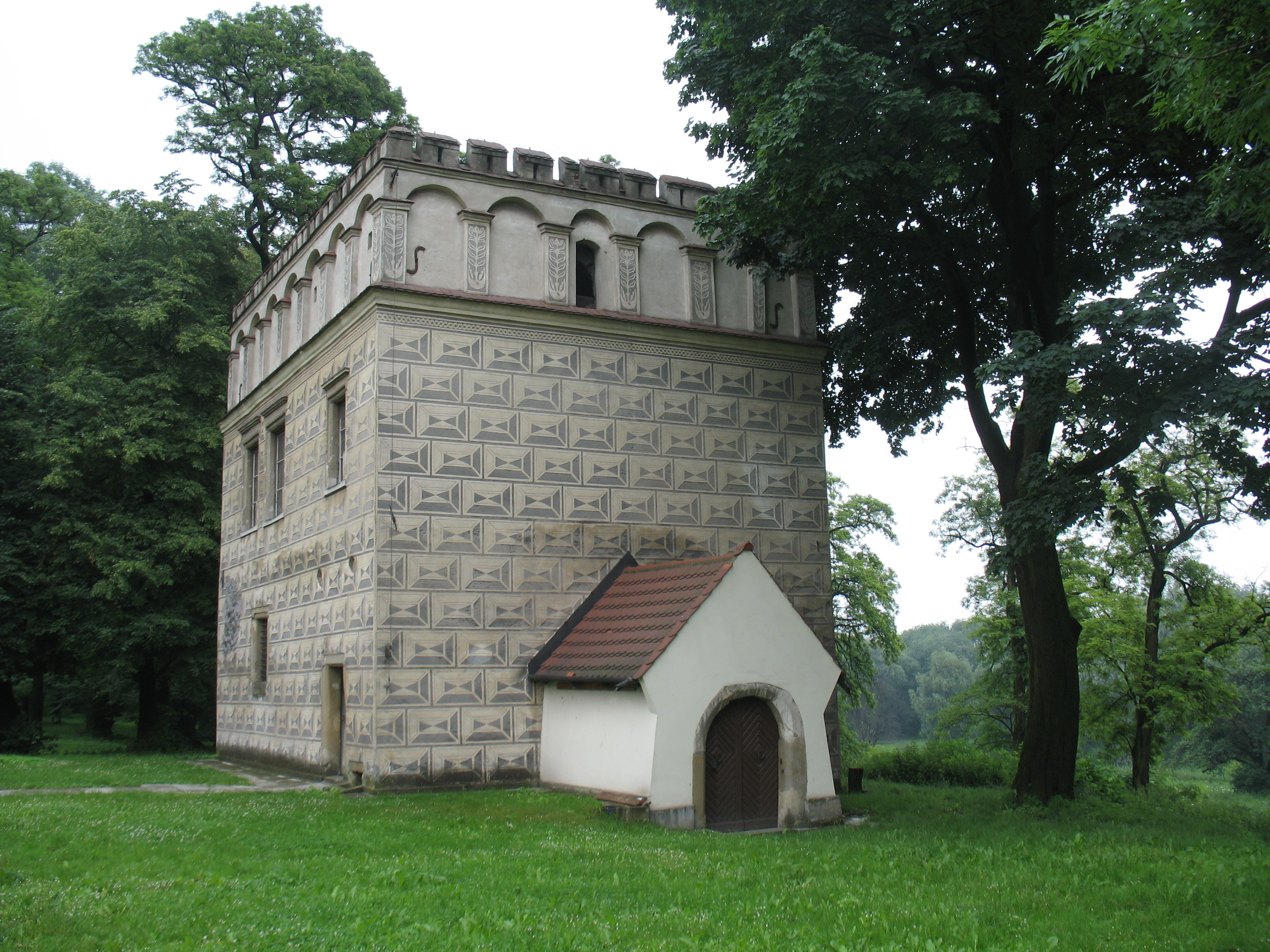 Renaissance manor house in Branice, turn of 16th and 17th c.